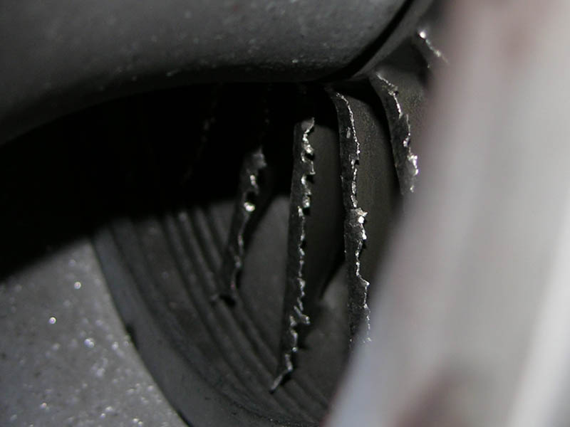 FOD damage to a Lycoming LTS-101 turboshaft engine in a Bell 222U helicopter